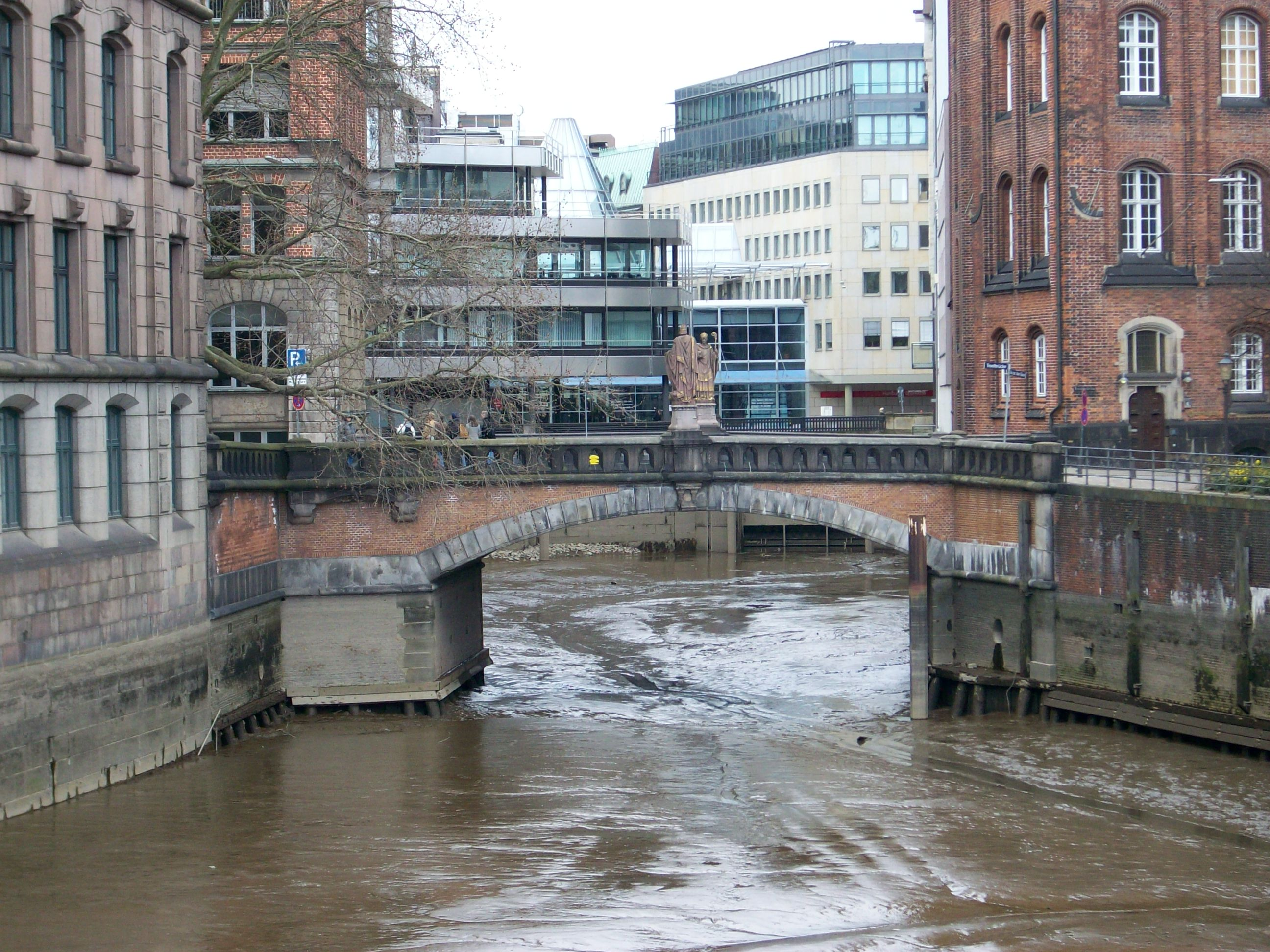 This is a photograph of an architectural monument.